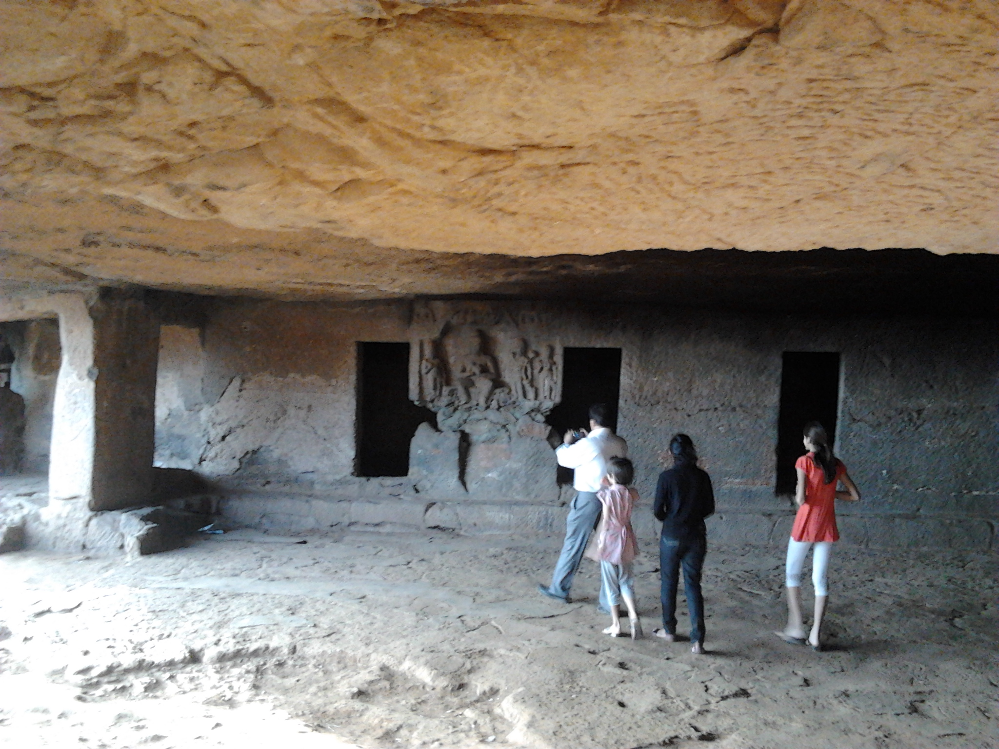 Karla caves (3) in pune,Maharashtra